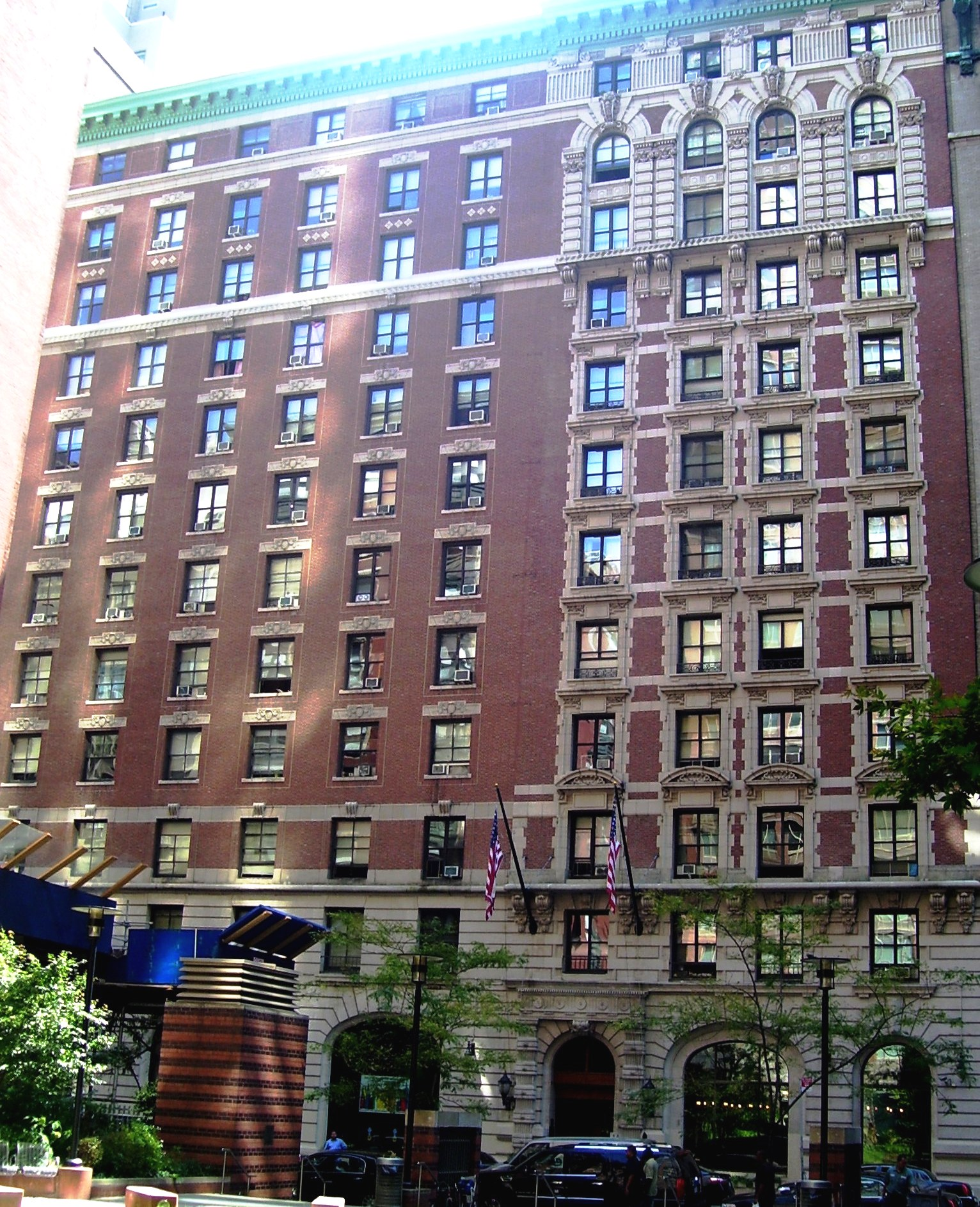 The exterior of the former Prince George Hotel at 14 East 28th Street, Manhattan, New York City, now one of the housing facilities of Common Ground